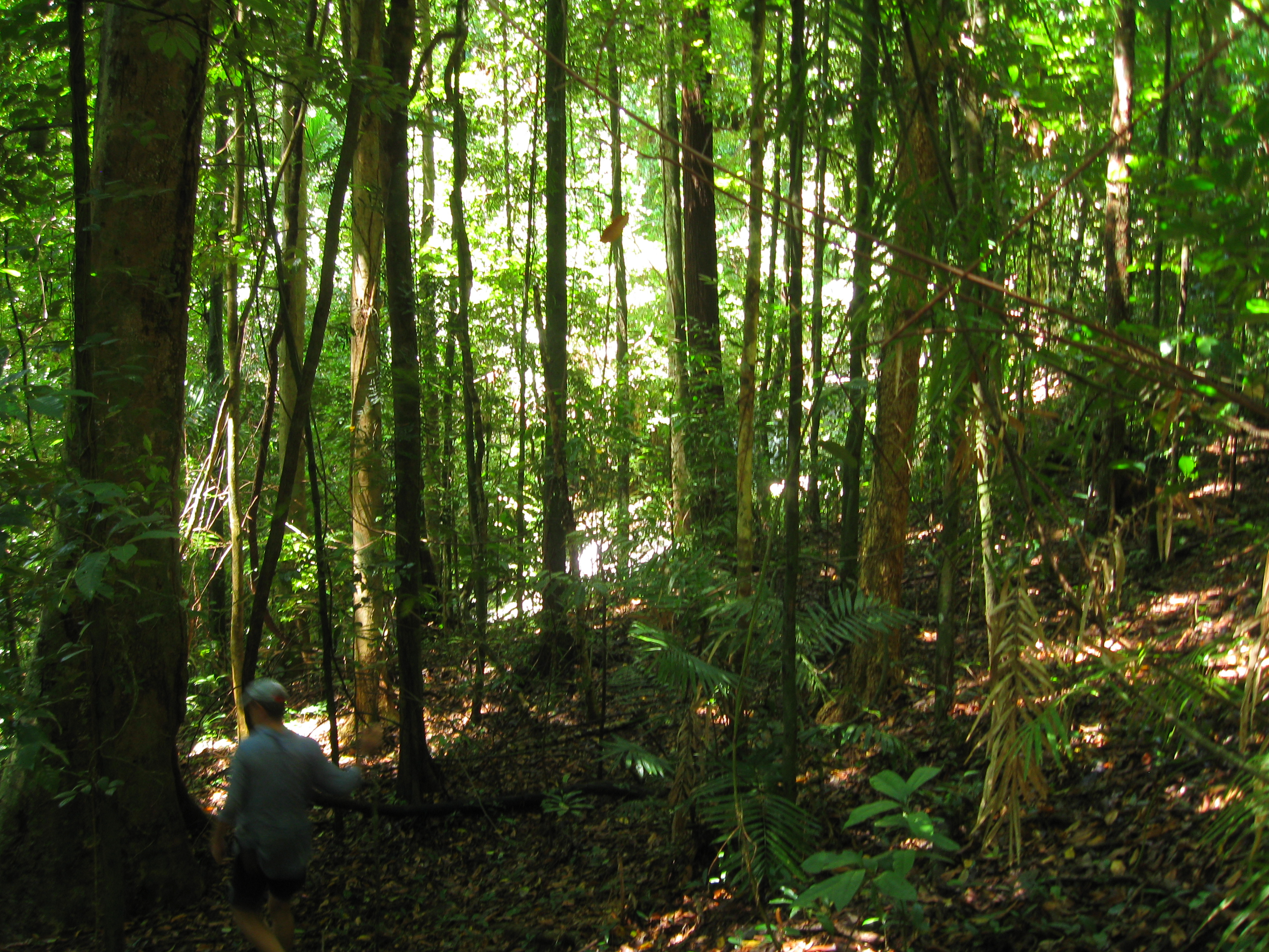 Daintree Rainforest with bushwalker, Queensland, Australia